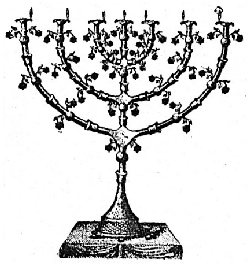 the Golden Lamp or Menorah of the Biblical Tabernacle